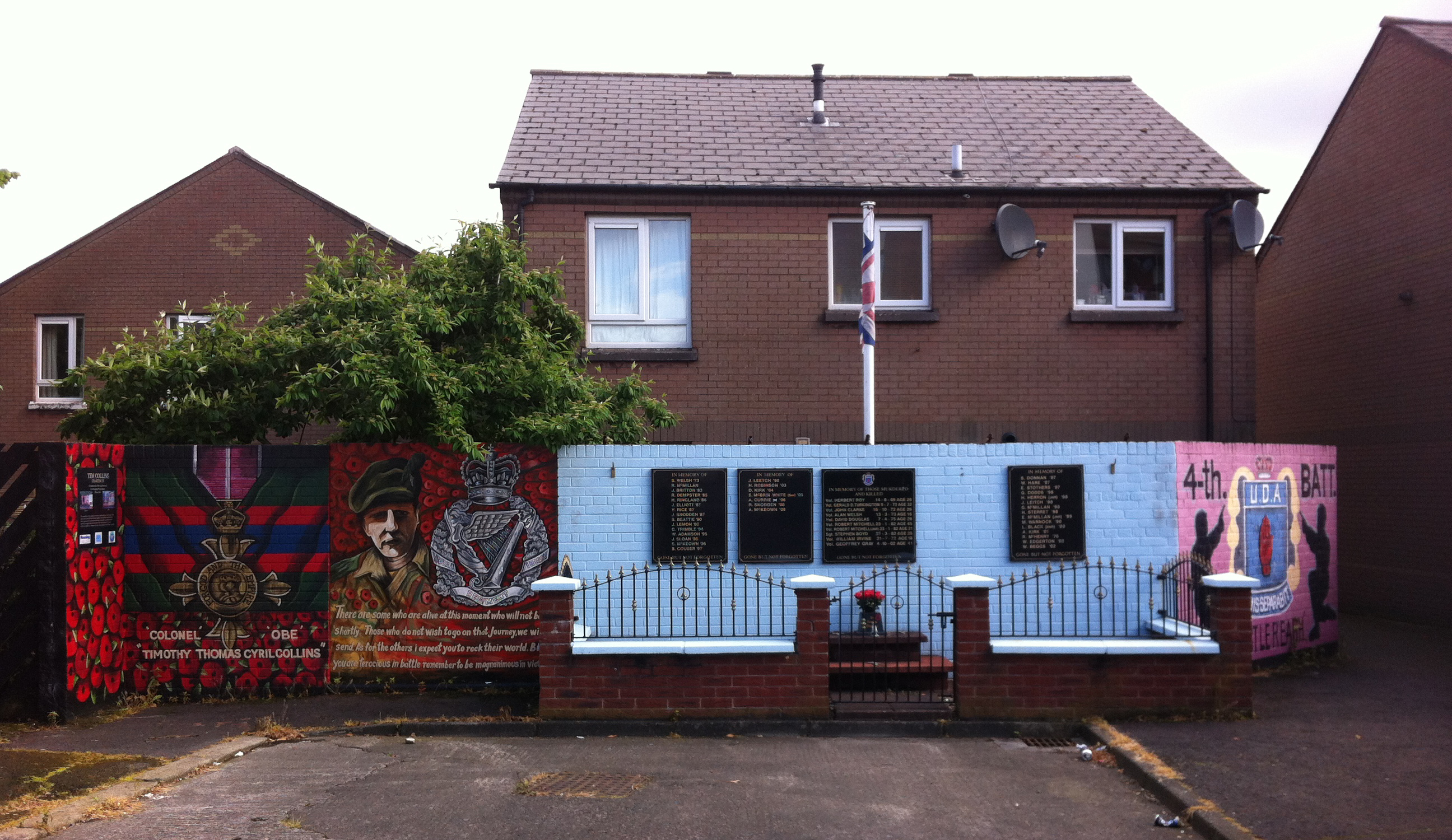 UDA mural, East Belfast